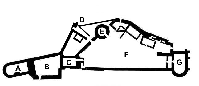 Labelled plan of Castell y Bere